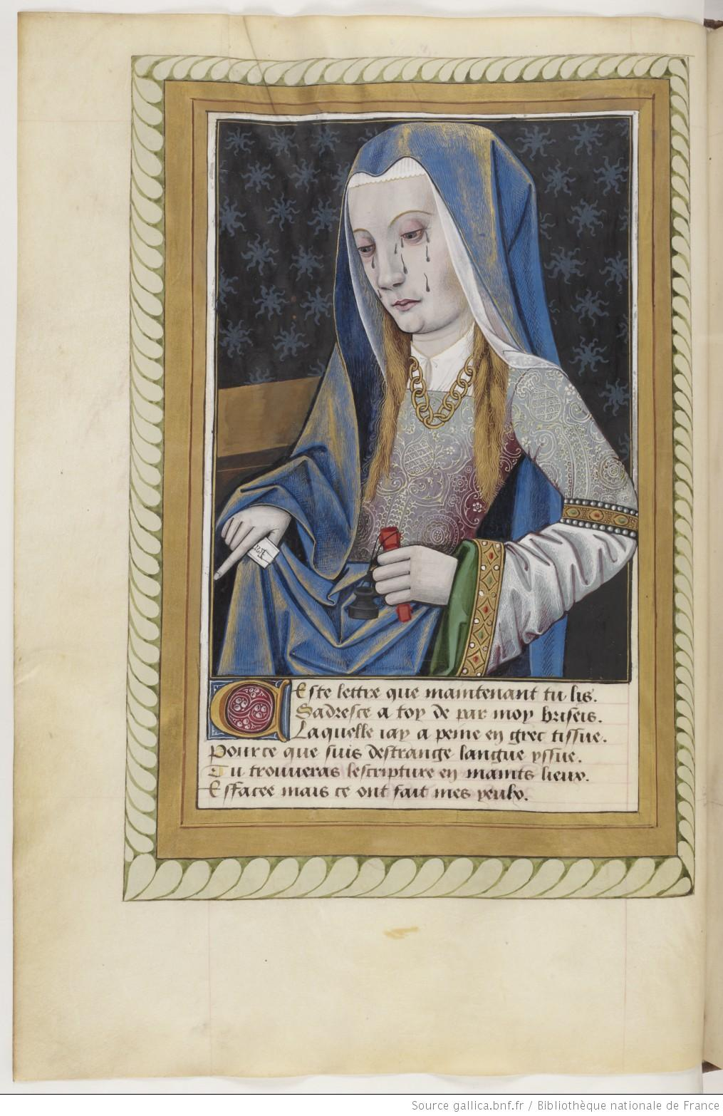 Plate from Ovide , Héroïdes ou Epîtres , translation by Octavien de Saint-Gelais. The Héroïdes (The Heroines) or Epîtres (Letters of Heroines), is a collection of fifteen epistolary poems composed by Ovid in Latin elegiac couplets and presented as though written by a selection of aggrieved heroines of Greek and Roman mythology in address to their heroic lovers who have in some way mistreated, neglected, or abandoned them. This portrait is of Briseis writing to Achilles.